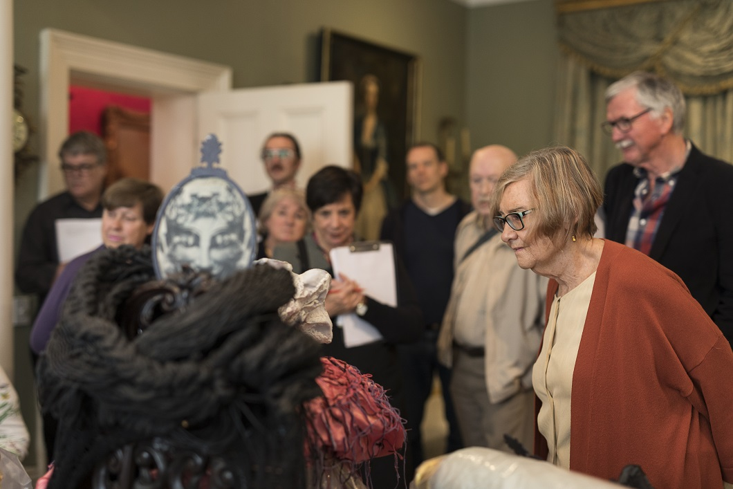 Visitors enjoy the 2019 Summer exhibition at TJC.